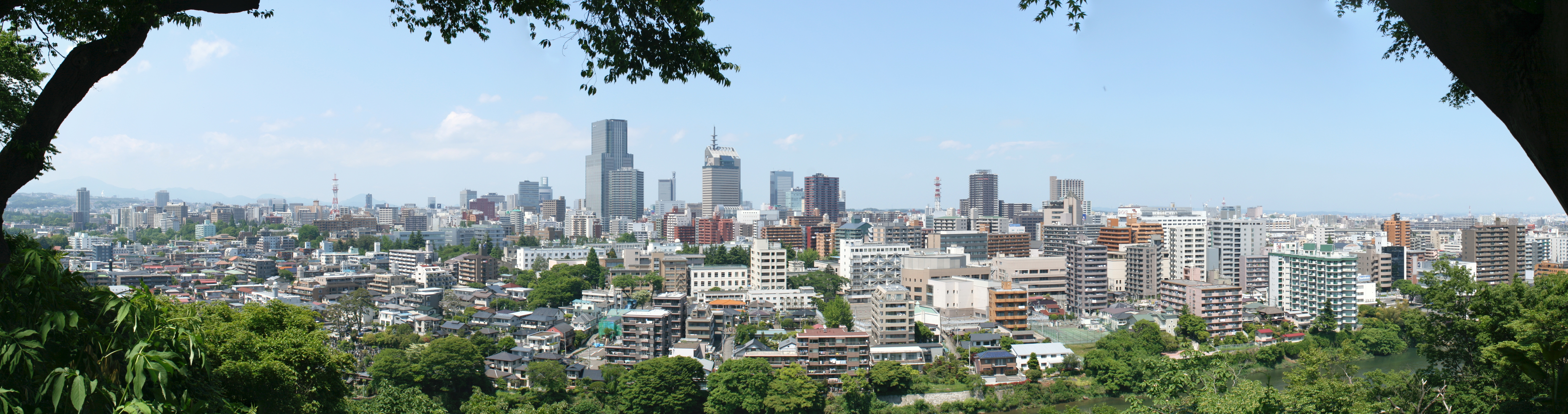 Panoramic view of Sendai City viewed from Atago Shrine at Mt. Atago in Mukaiyama 4 chōme, Taihaku Ward, Sendai City, Miyagi Prefecture, Japan. Stitched 6 photographs together by Hugin, and retouched by GIMP2.